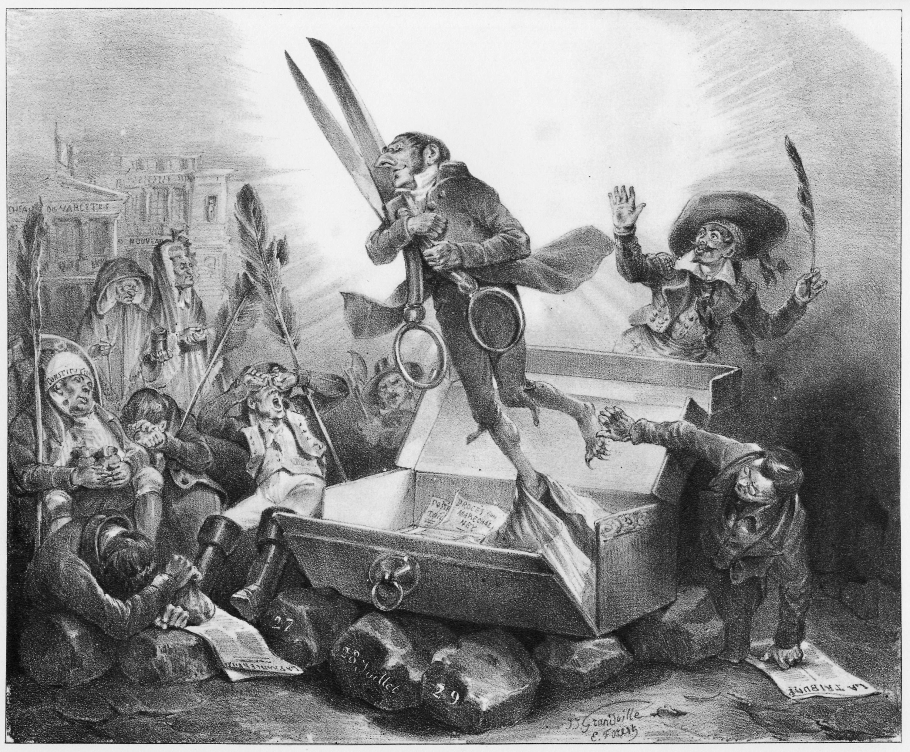 Caricature "Résurrection de la Censure" (resurrection of censorship) by the french artist J. J. Grandville, lithography.